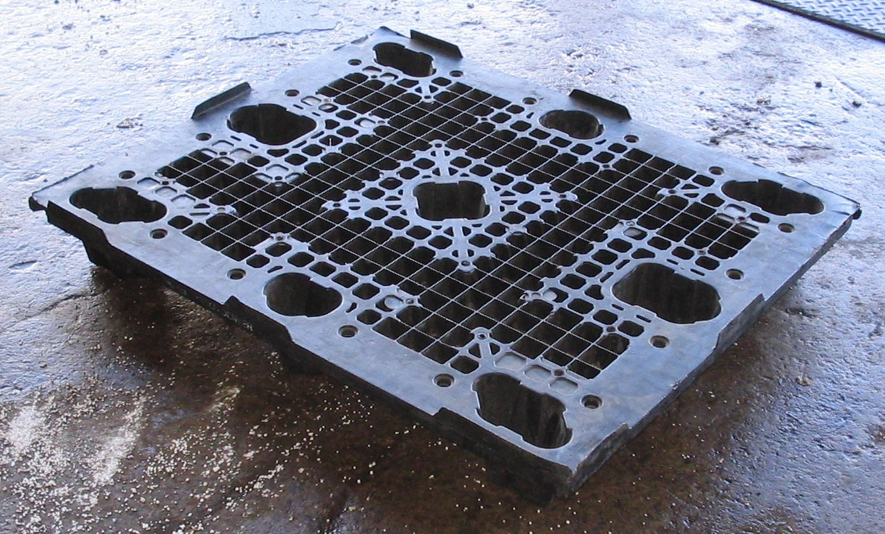 Пластиковый поддон